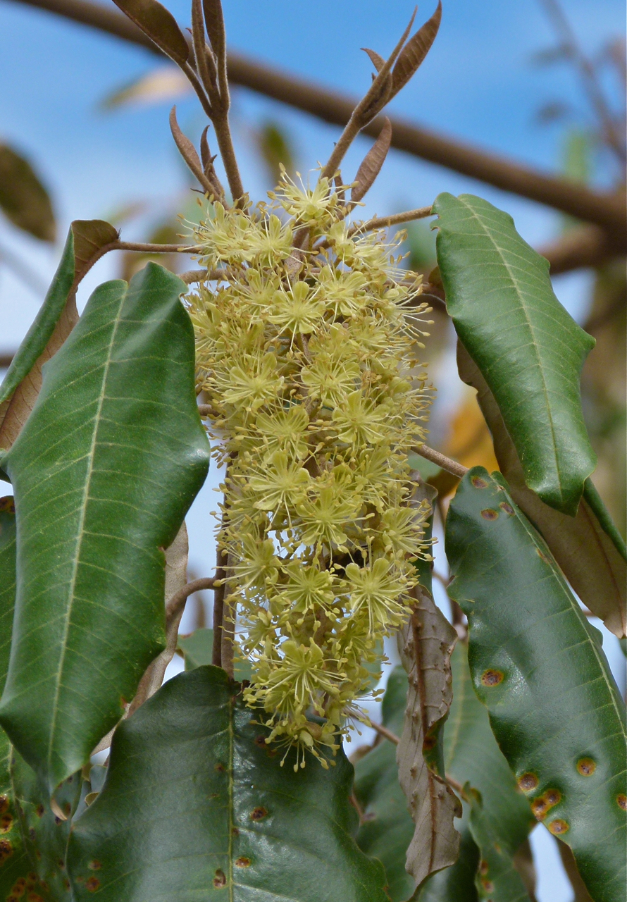 Flowers of large-nut croton (Croton megalocarpus) photographed in Nanyuki, Kenya.